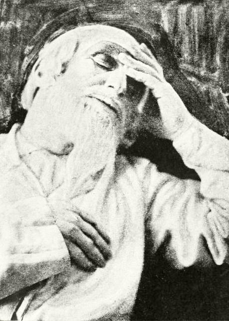 Nahum Zemach Moskaertheater 1920